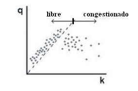 Flow congested